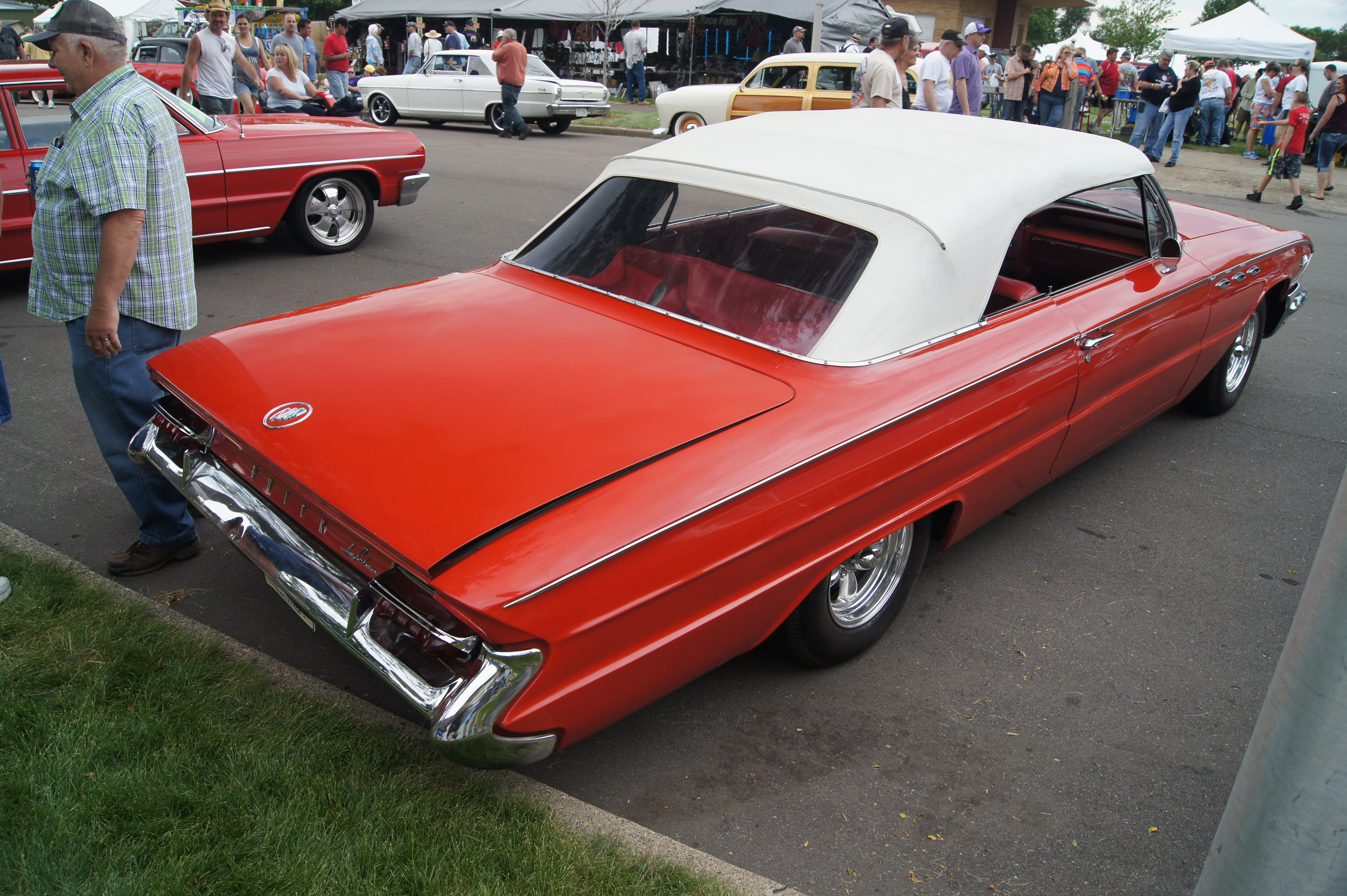 MSRA “BACK TO THE 50′s” 42nd Annual June 19-21, 2015 State Fairgrounds St. Paul Minnesota Click here for more car pictures at my Flickr site.